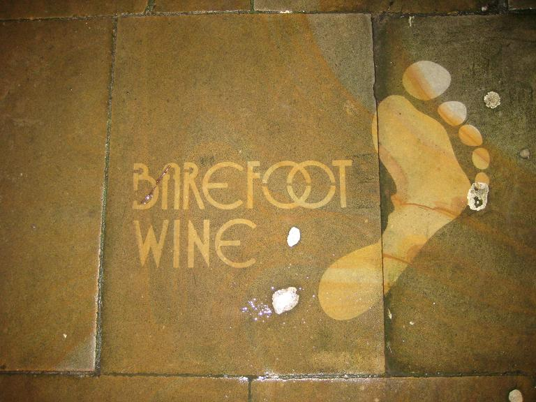 This is a photograph of a Reverse Graffiti Advertising image. It was created for EJ Gallo in Manchester by Street Advertising Services, UK and was part of a 30 advert campaign.